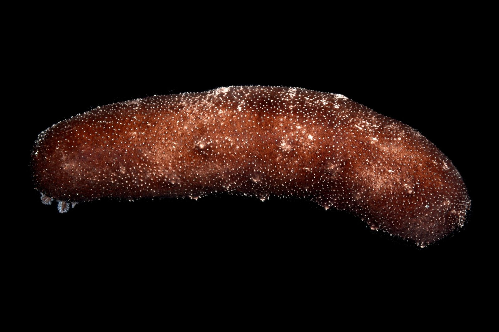 Holothuria whitmaei. Kosrae, Federated States of Micronesia.